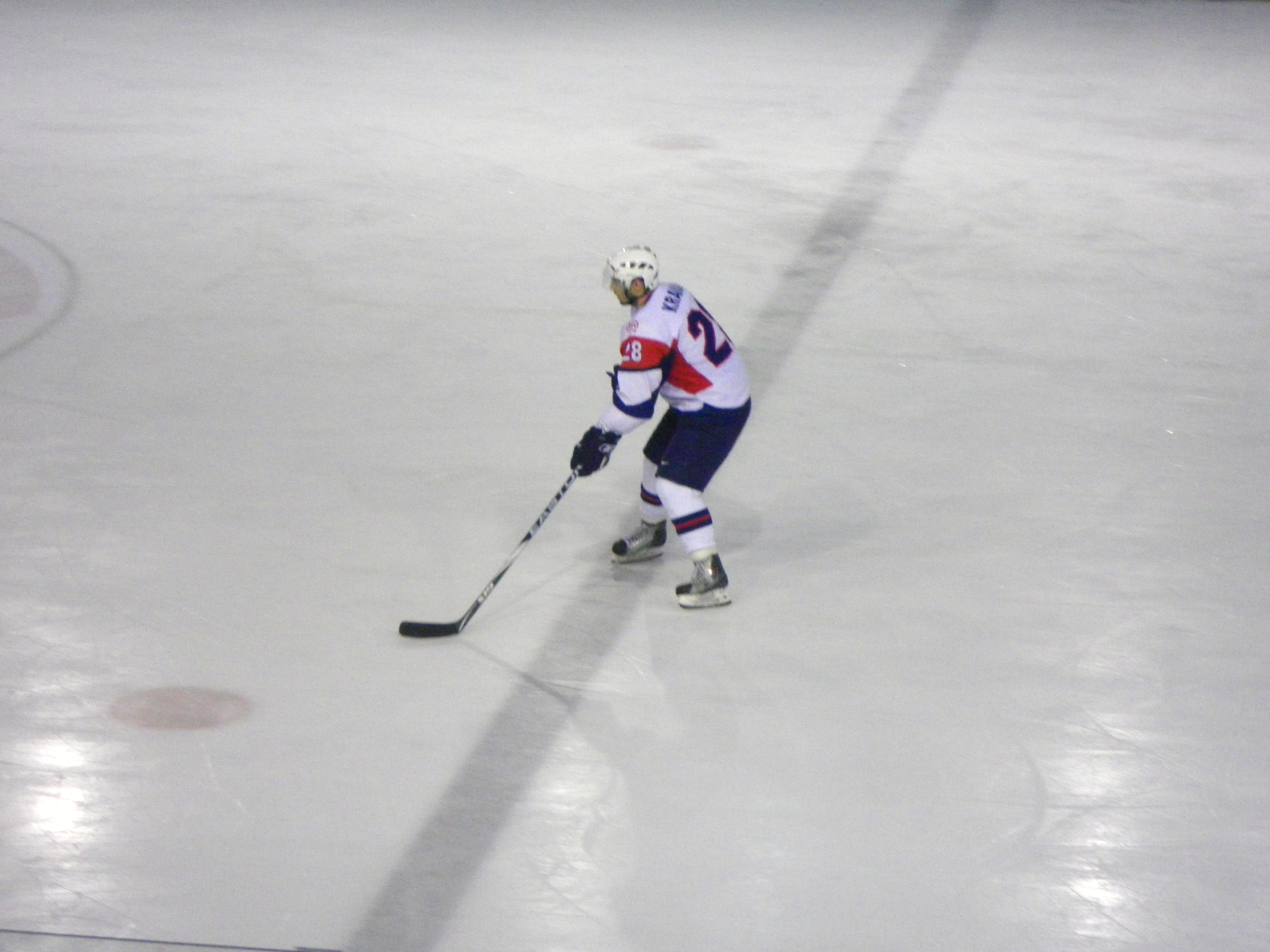 Aleš Kranjc, slovenian ice hockey player